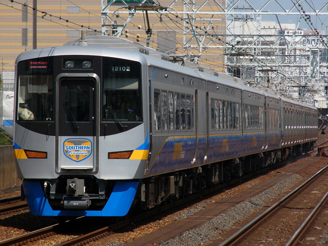 Nankai 12000 series EMU on a Southern service near Imamiyaebisu Station